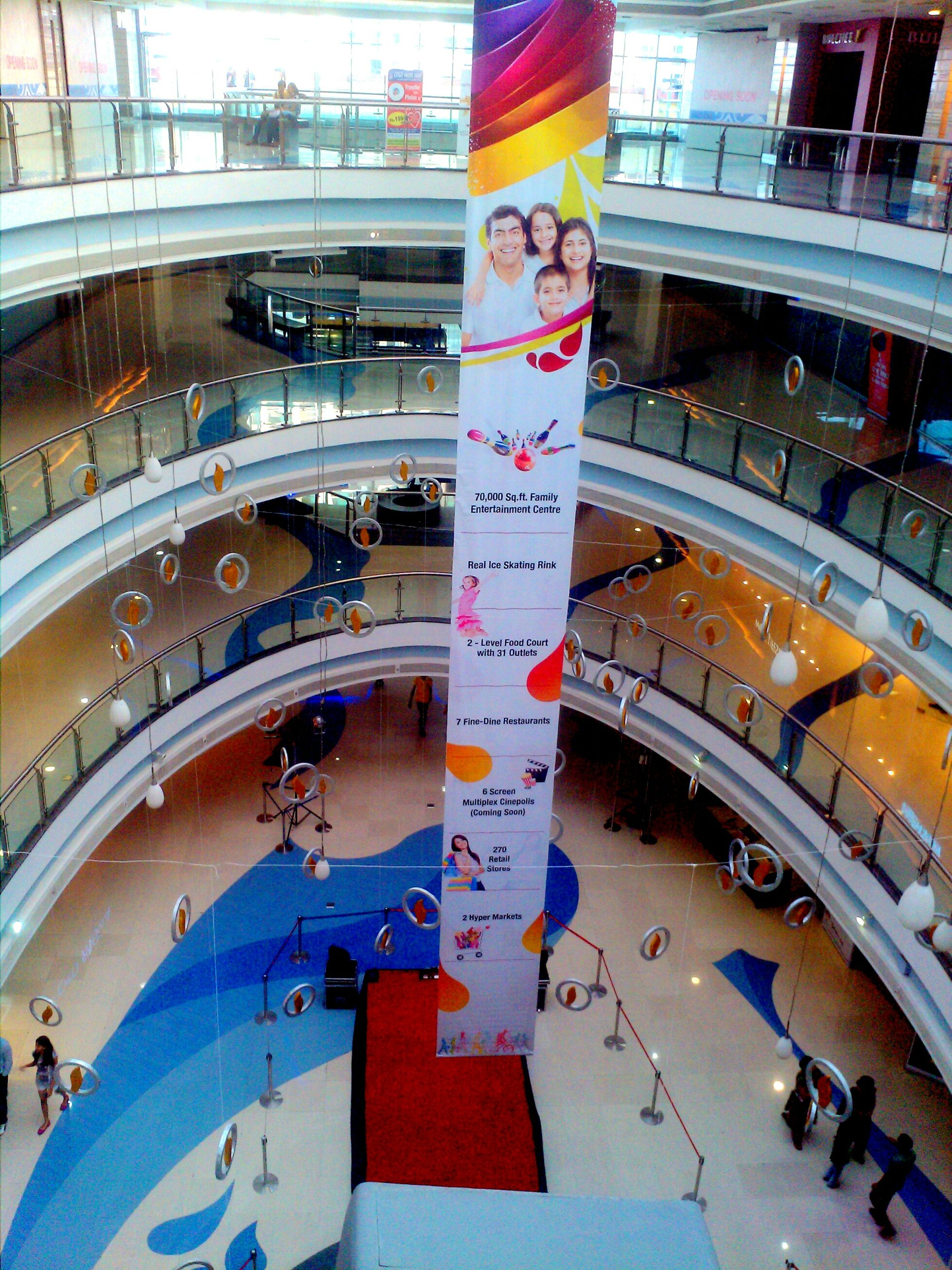 Neptune Magnet Mall Interiors